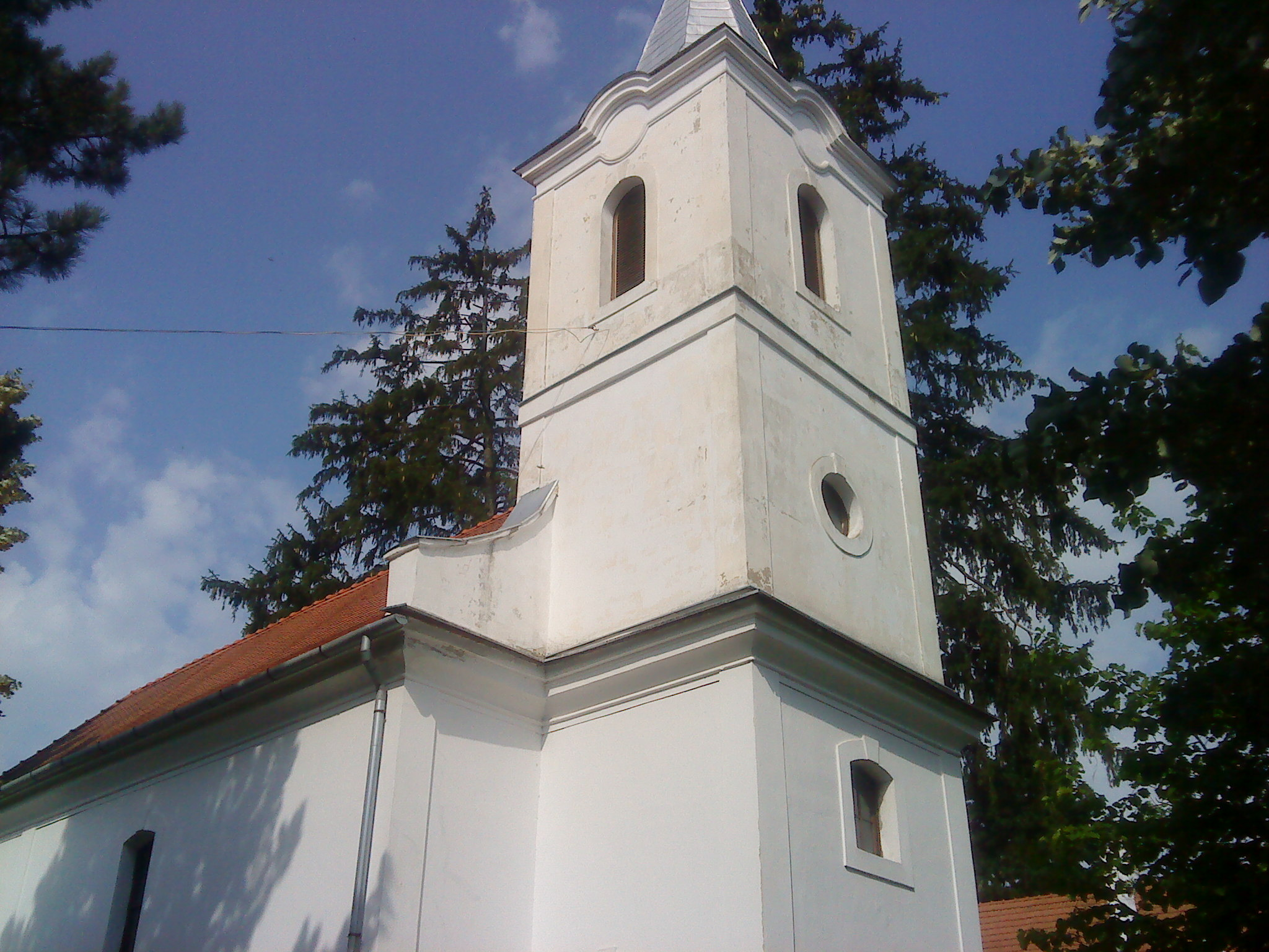 Reformed church in Bisse